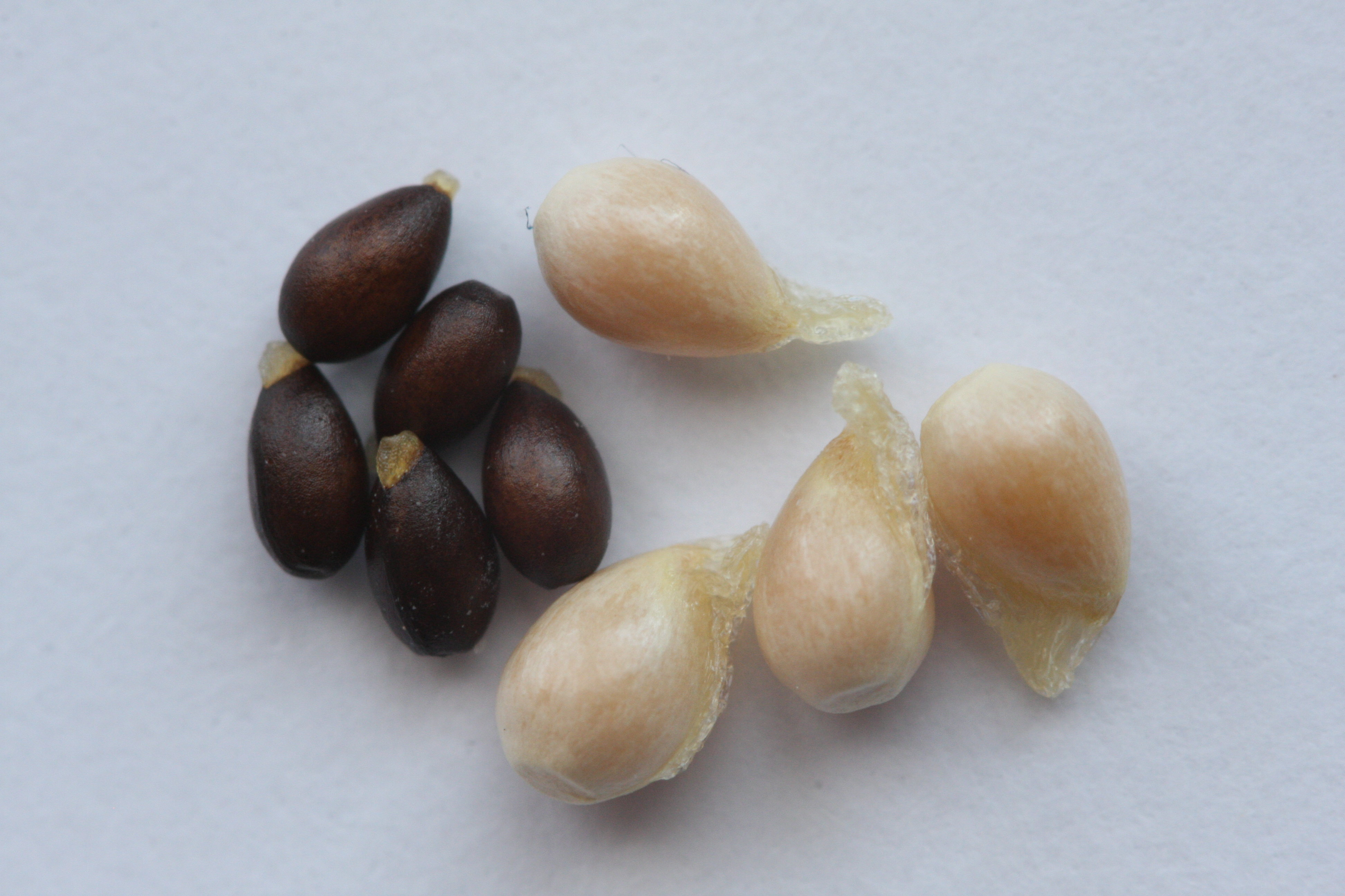 Seeds of violets : viola lactea (dark), viola odorata (light).